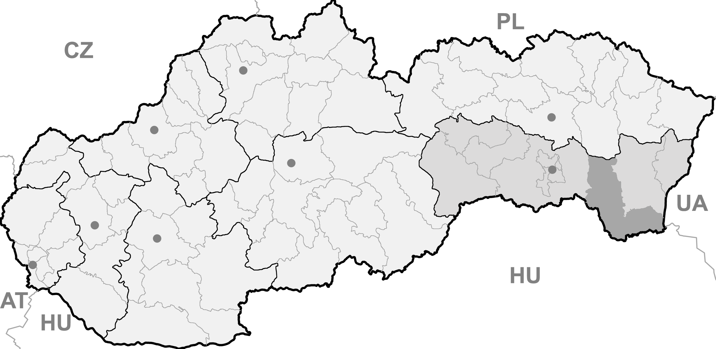 Map of Slovakia, Trebisov district and Kosice region highlighted